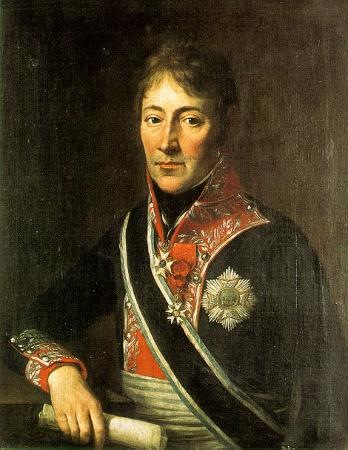 Johann Nepomuk von Triva (1755-1827), Bavarian General and 1st War Minister of the Kingdom of Bavaria